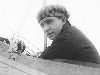 The look of Geo Chavez from his Bleriot